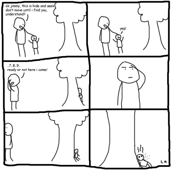 This is an offensive comic strip, created by myself, Luke Rathbone.